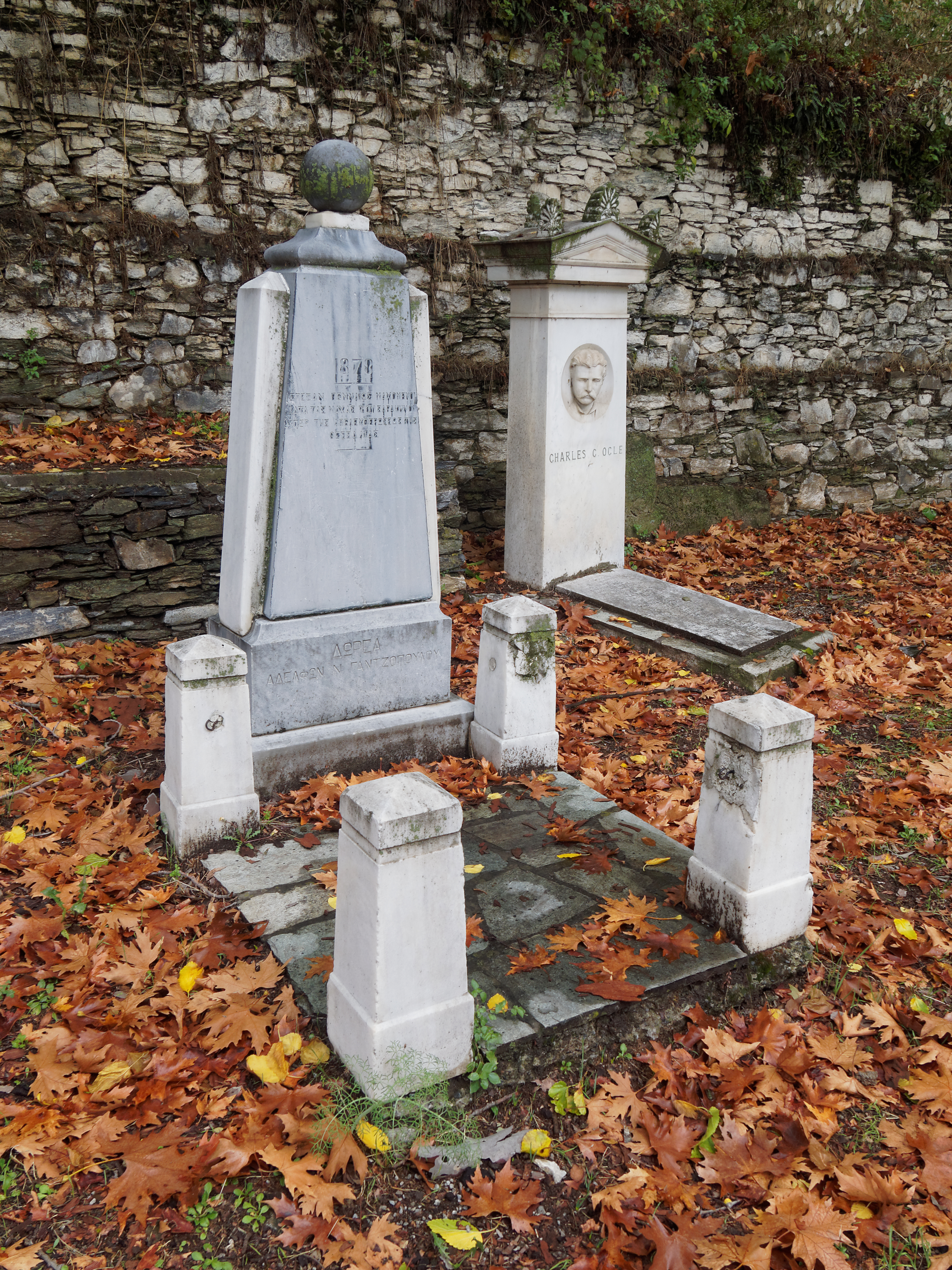 The monument dedicated to battle of Sarakino (1878) and the monument to Charles Ogle in Makrinitsa.